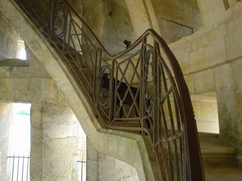 Inside the pagoda in Chanteloup, France